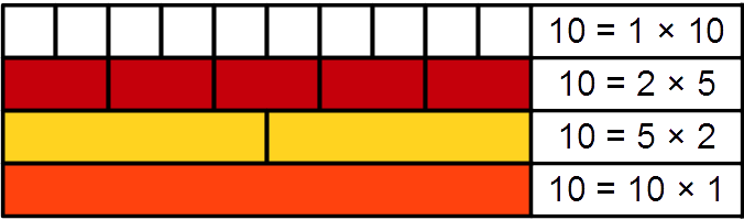 Showing, through Cuisenaire rods, the multiple divisors of the thus composite number 10.